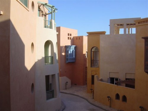 Architecture in El Gouna, Egypte.